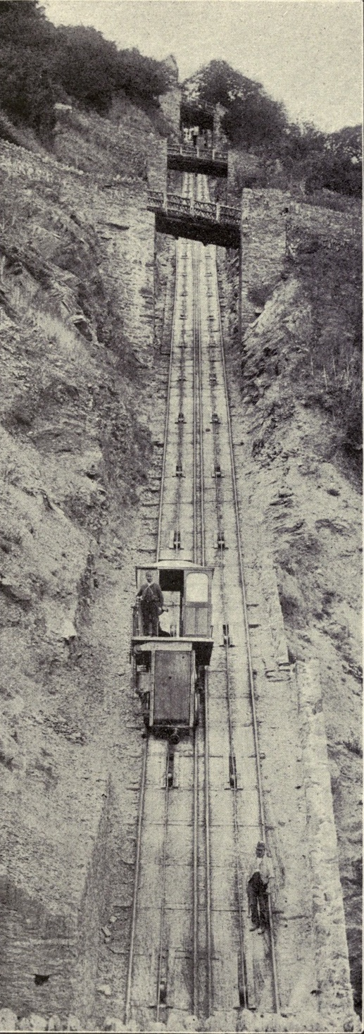 The full length of the Lynton and Lynmouth Cliff Railway, taken shortly after construction and published in George Croydon Marks' book "Hydraulic Power Engineering"